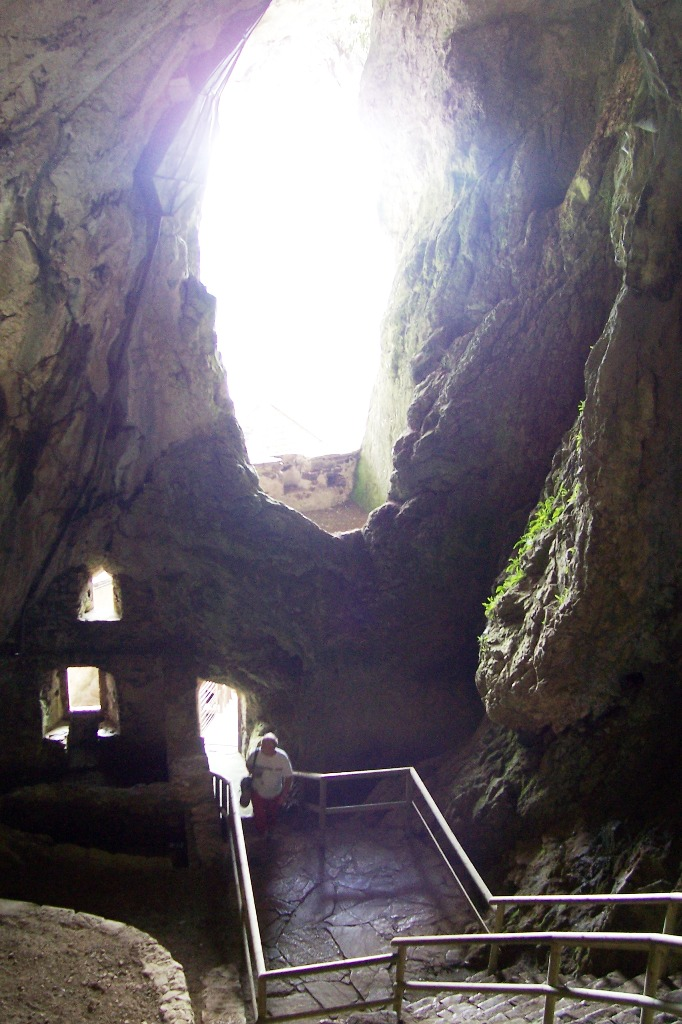 Predjama Castle, Slovenija